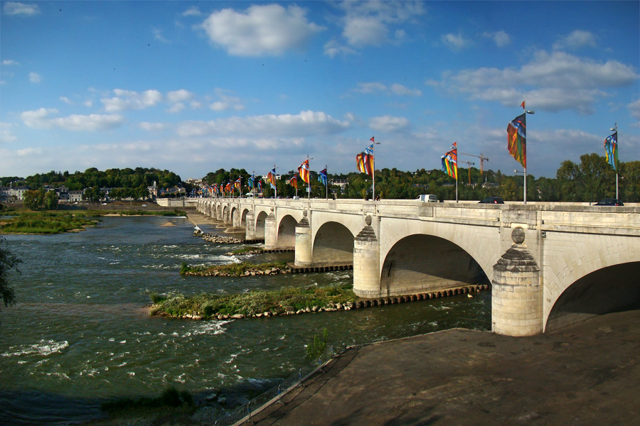 Wilson Bridge, Tours, Indre-et-Loire, Centre, France. Stretching across the Loire River.